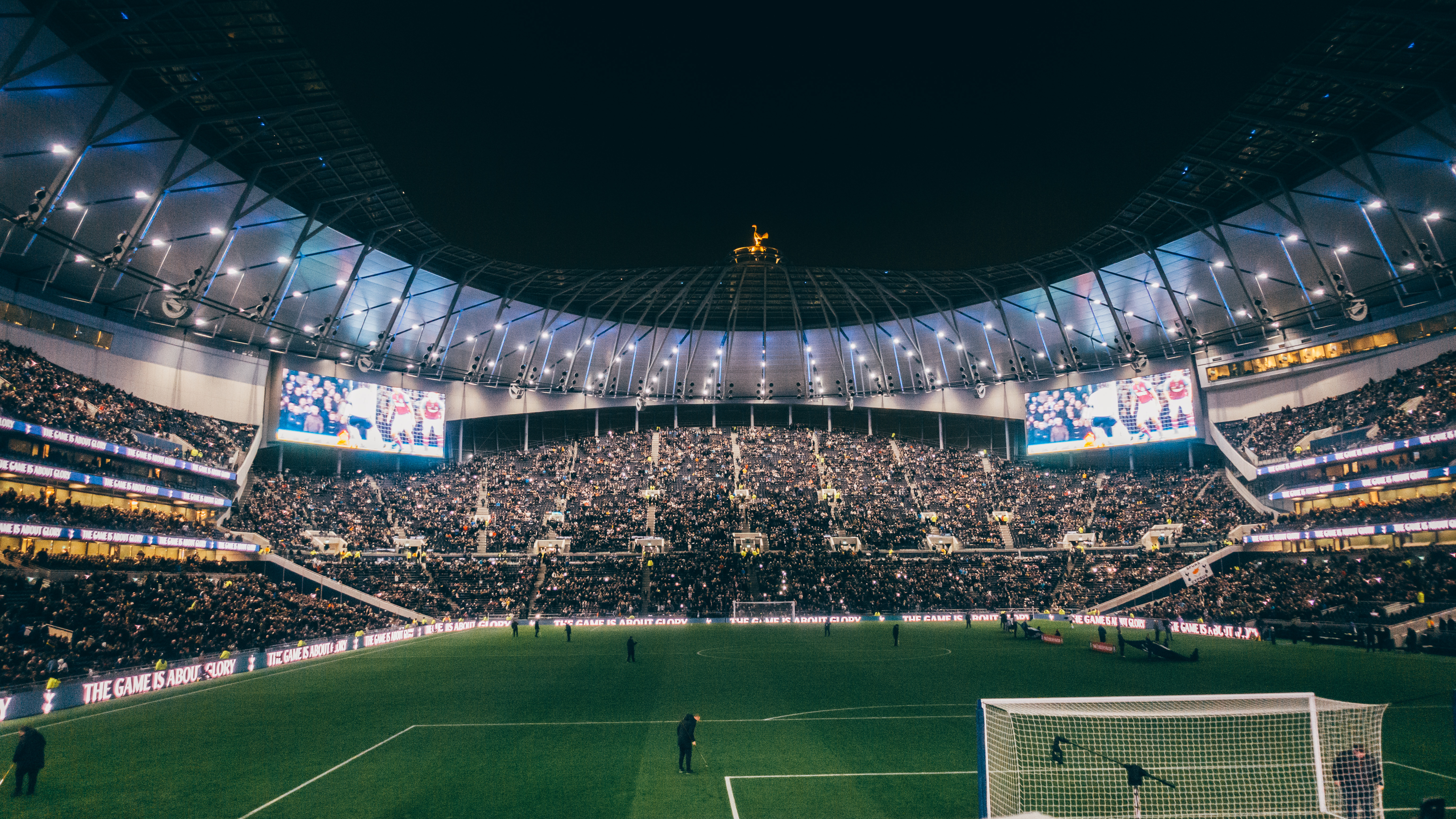 View of Spurs Stadium towards South Stand, Spurs v Middlesbrough in January 2020